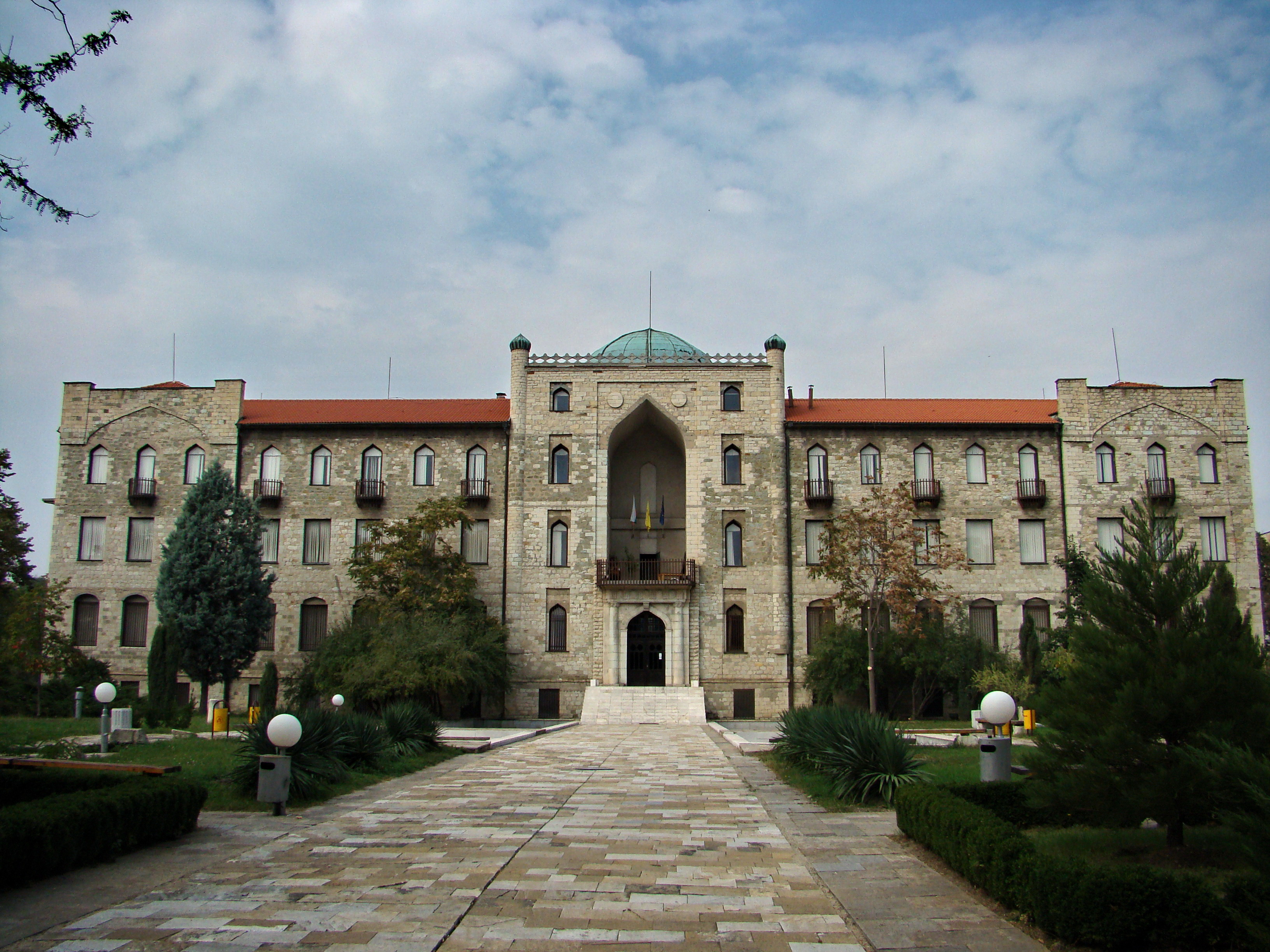 The Archeology Museum of Kardzhali, Bulgaria